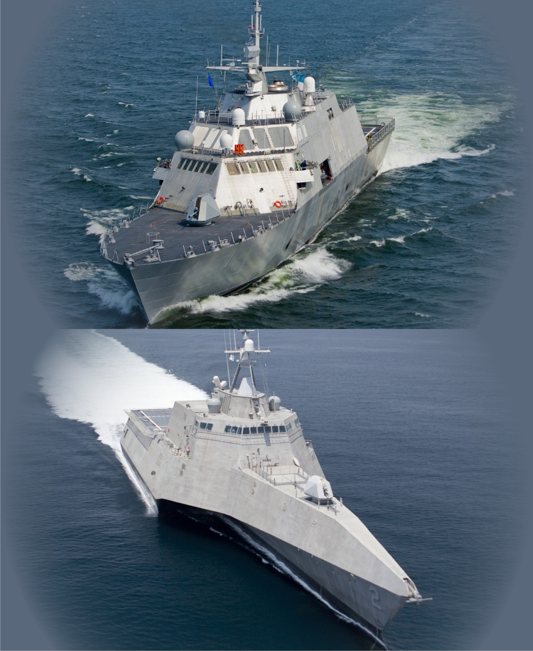 WASHINGTON (Nov. 4, 2010) A composite photograph of the littoral combat ships USS Freedom (LCS 1), top, and USS Independence (LCS 2) provided by Naval Surface Forces, U.S. Pacific Fleet shows the two ships underway. (U.S. Navy photo illustration/Released)